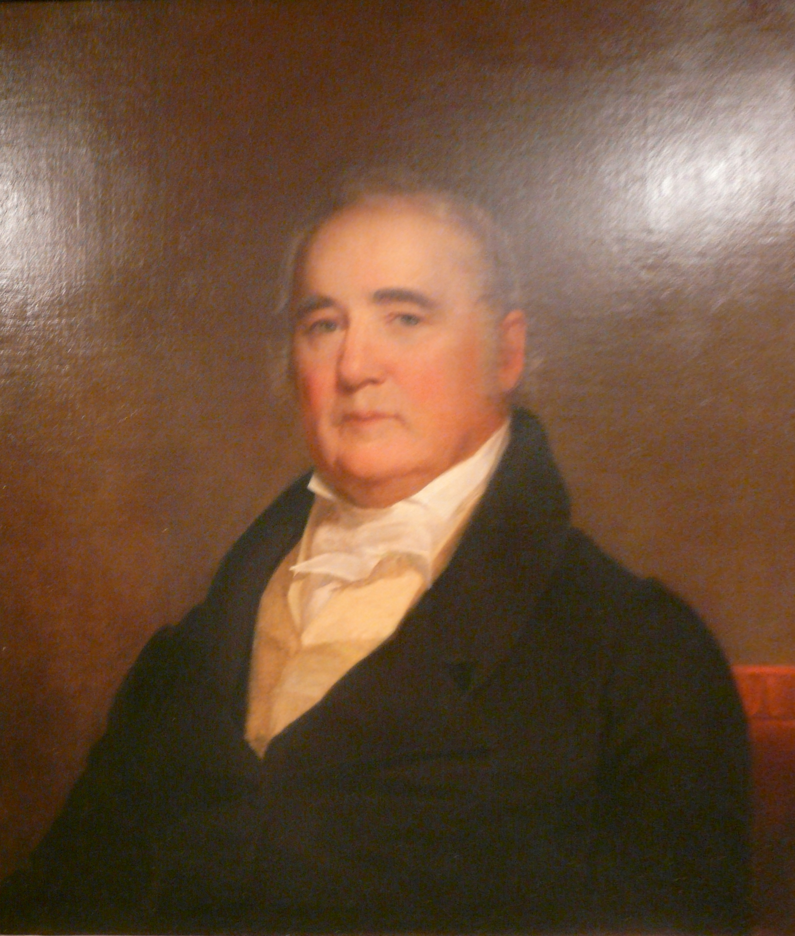 Commodore Richard Dale. Oil on canvas. Independence Seaport Museum